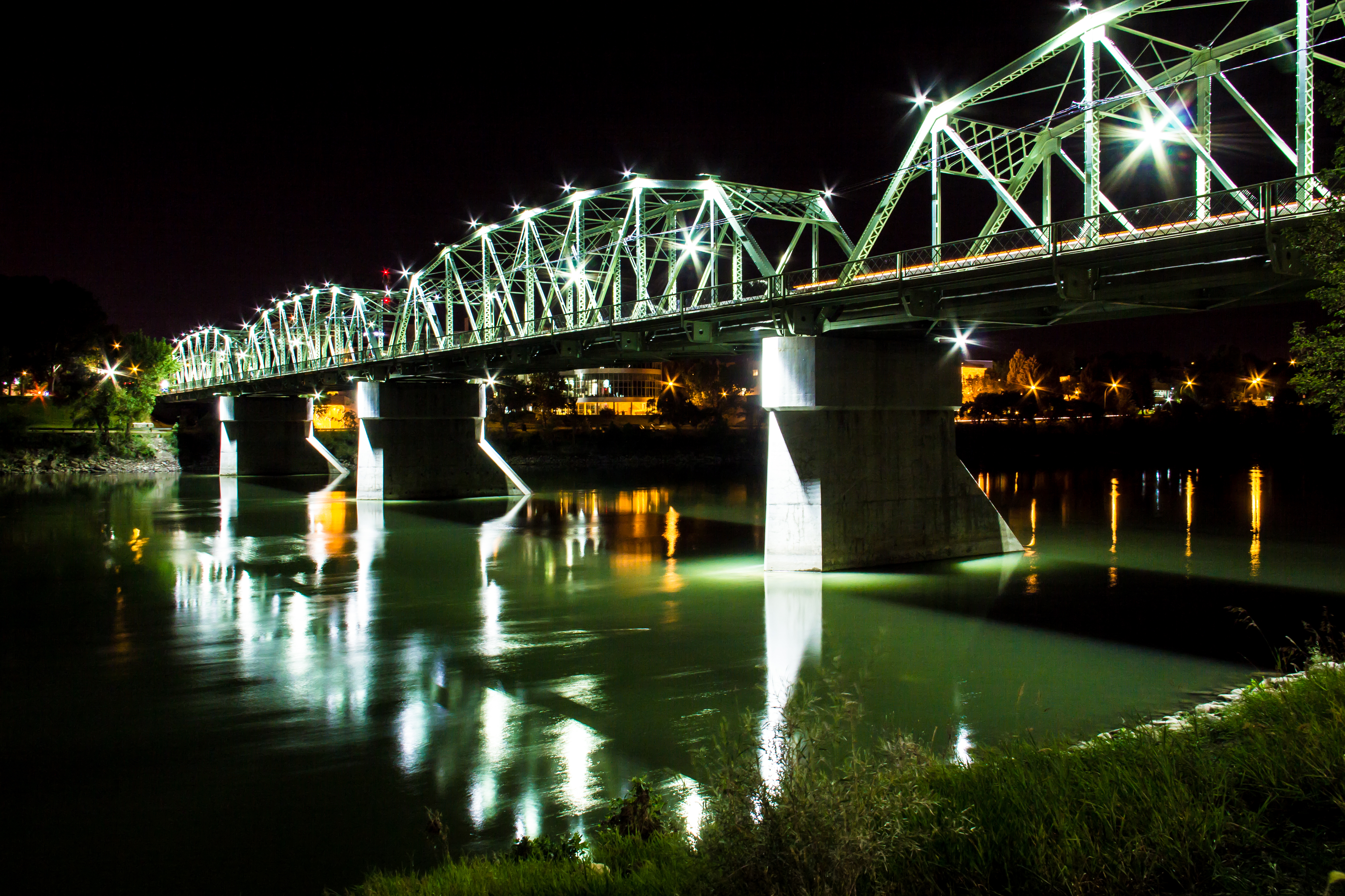 Finlay Bridge at night. Time lapse photo taken on July 31st, 2014.